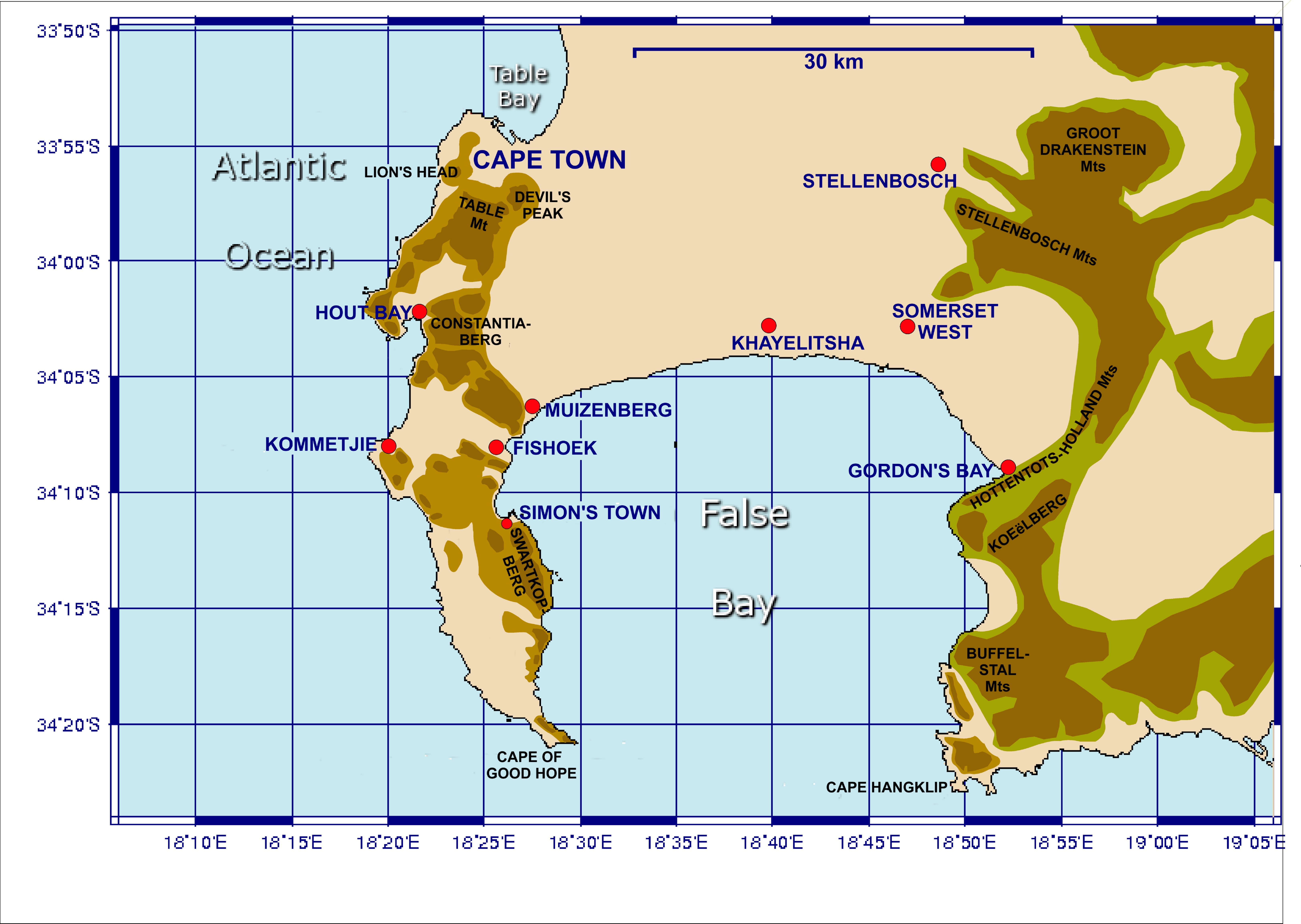 Map of the Cape Peninsula showing the mountains and selected towns and suburbs.